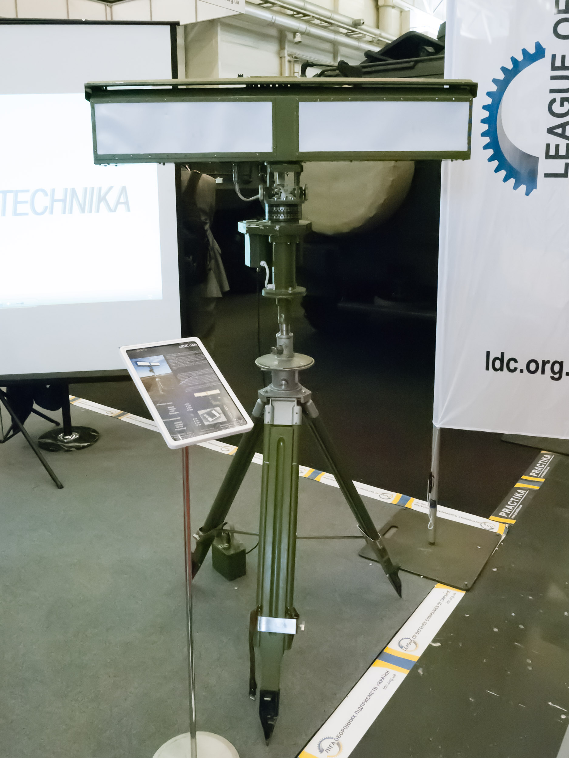 Lys-3M radar, 'Zbroya ta Bezpeka' military fair, Kyiv, Ukraine, 2018